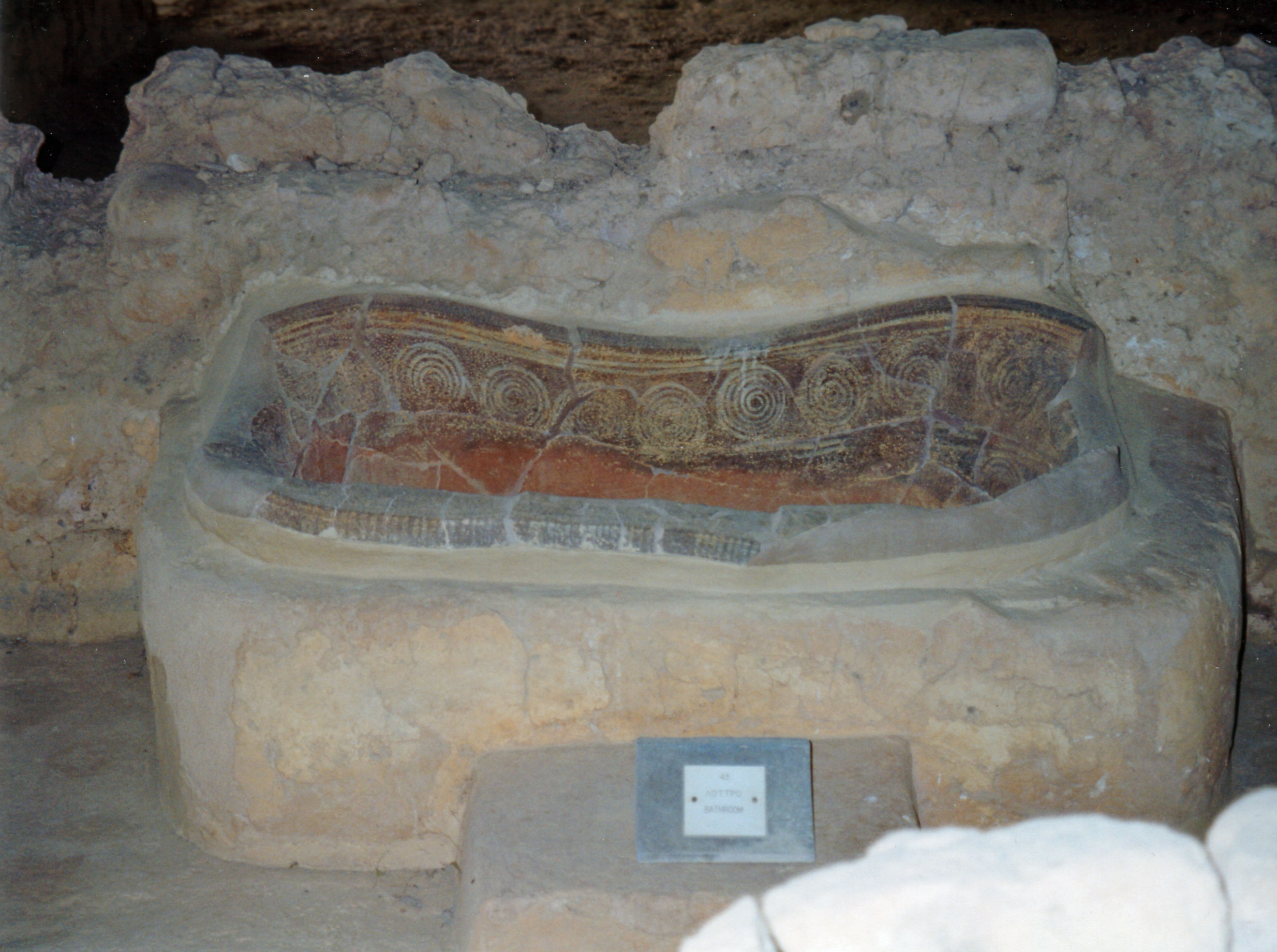 What may (or may not) be a bath at the Palace of Nestor in Pylos (Greece).